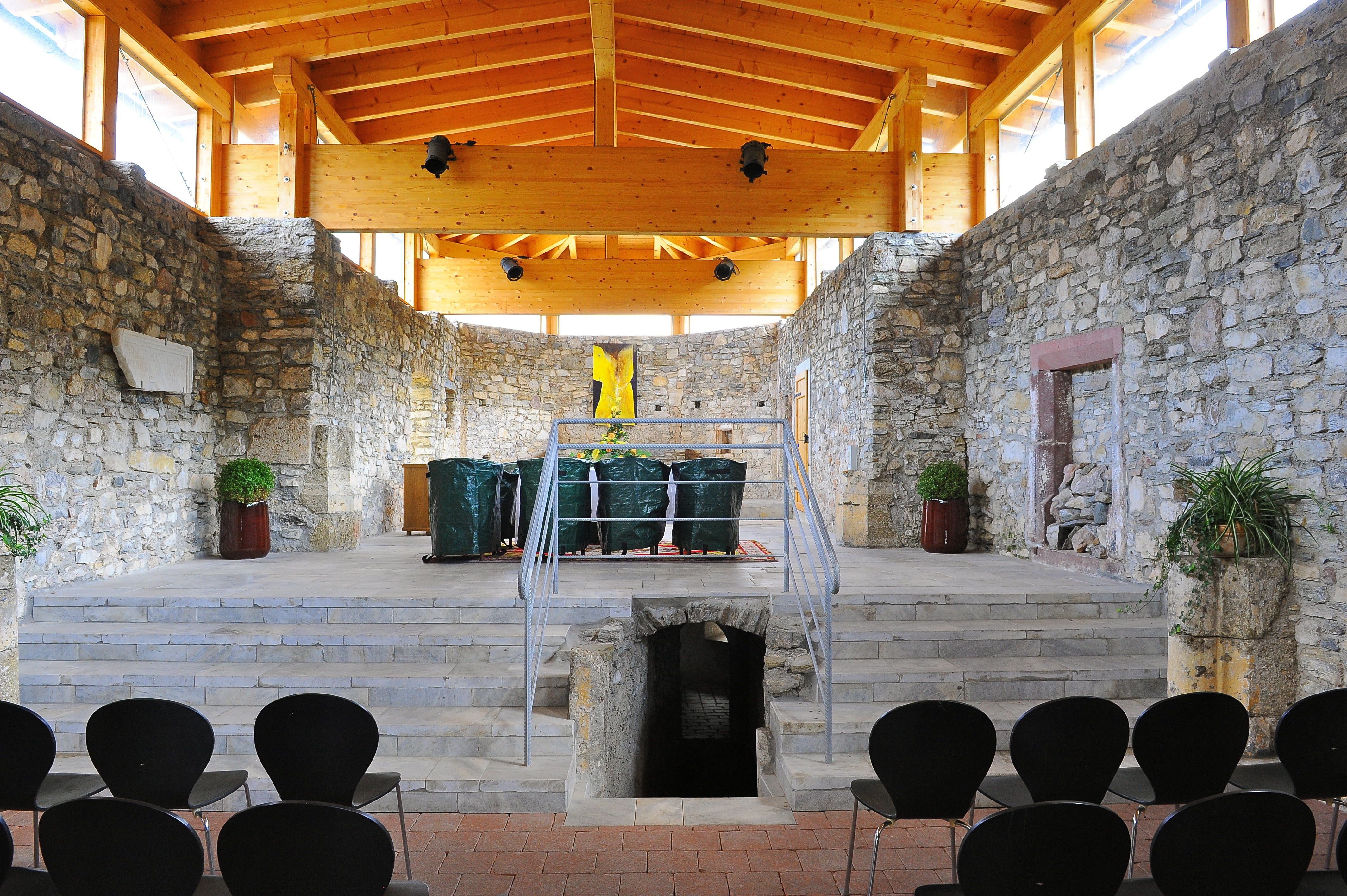 Heightened choir of the monastery church Saint George within the ruin in Arnoldstein, municipality Arnoldstein, district Villach Land, Carinthia / Austria / EU